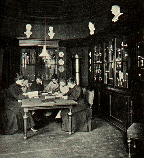 The library at Tegneskolen for Kvinder in Copenhagen, Denmark